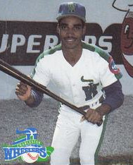 Professional baseball player Fernando Ramsey